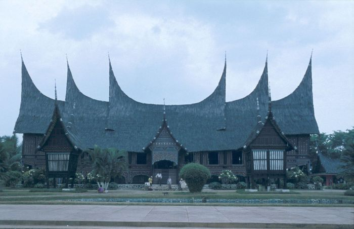 Minangkabau house at Taman Mini near Jakarta